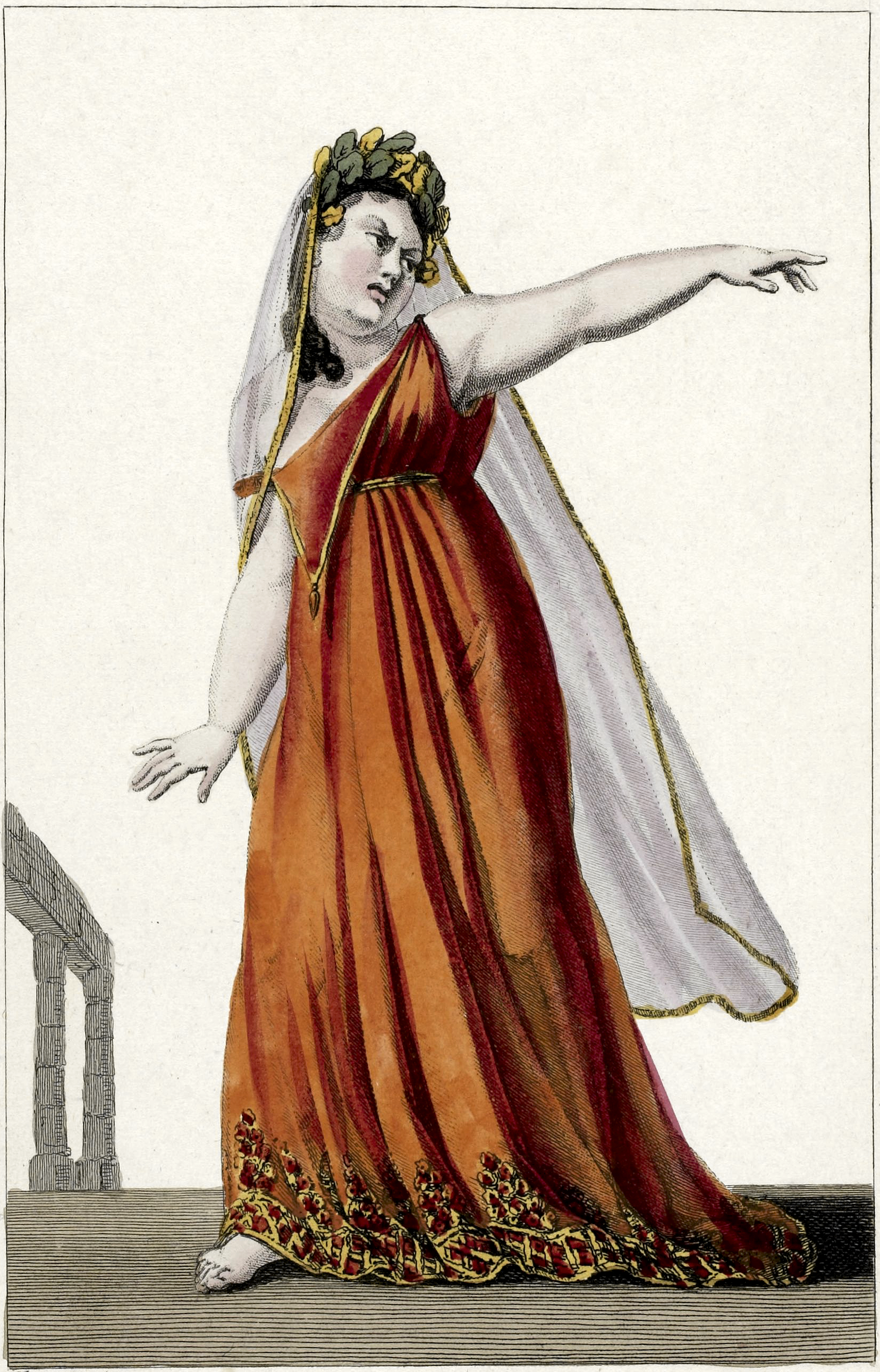 Mademoiselle George (1787–1867) as la Pythonisse d’Endor in Saül.